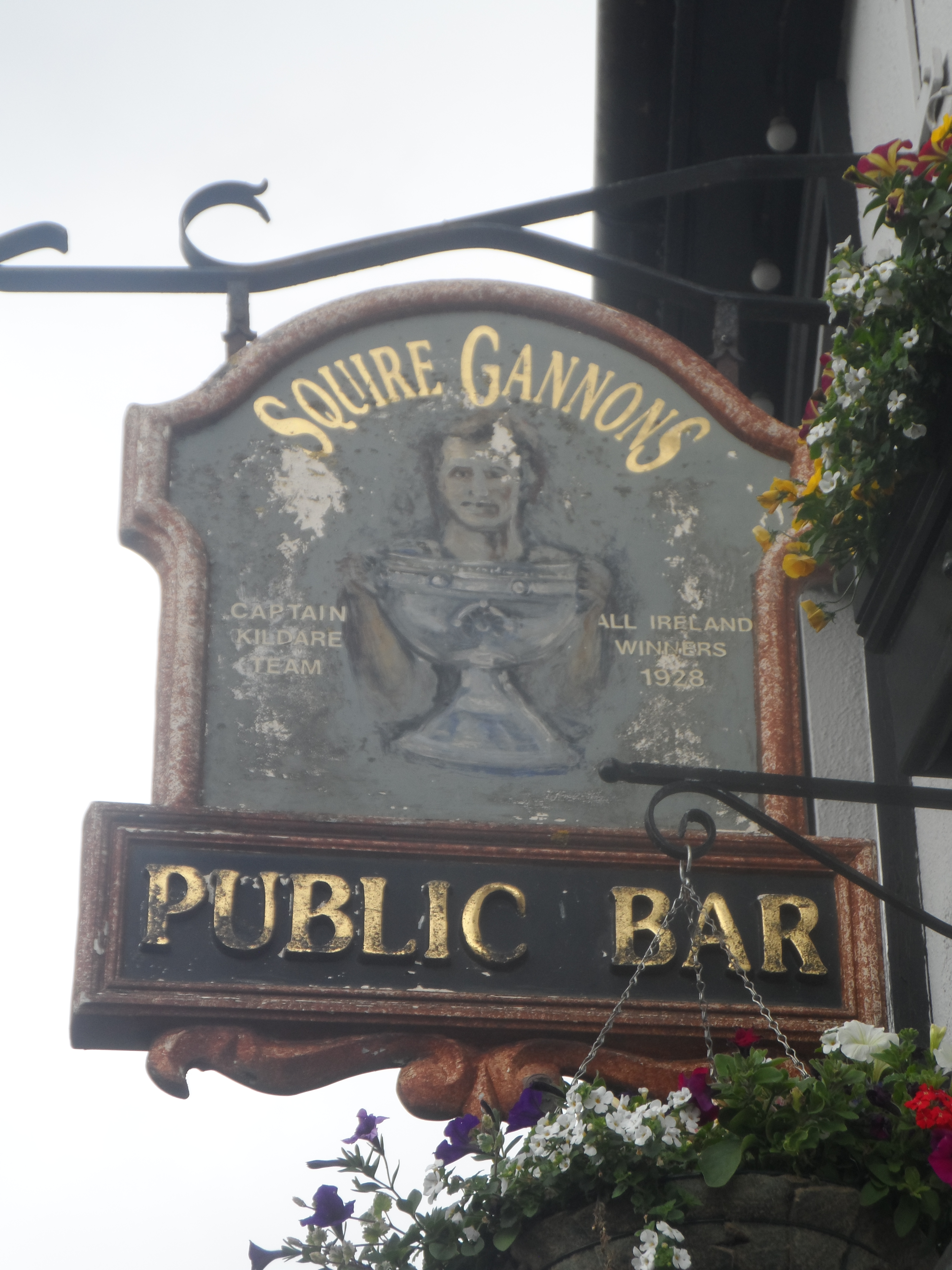 Squire Gannon's Kildare